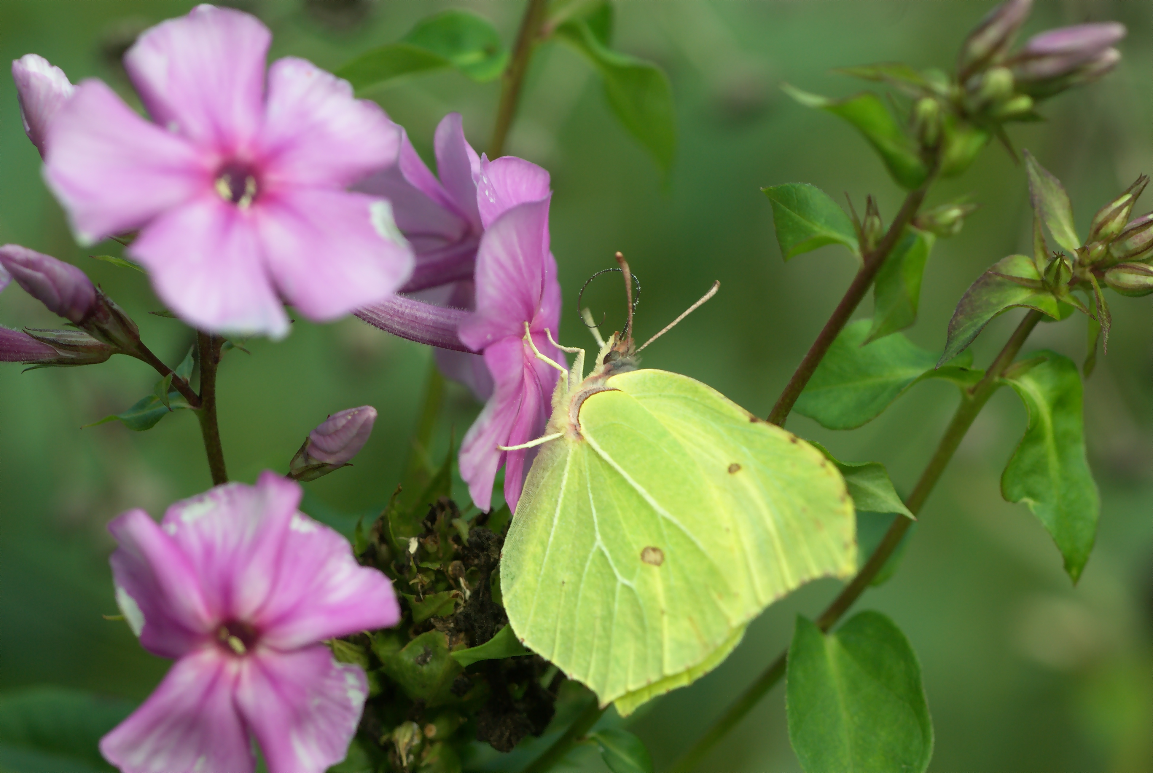 A Common Brimstone feeding in Phlox.